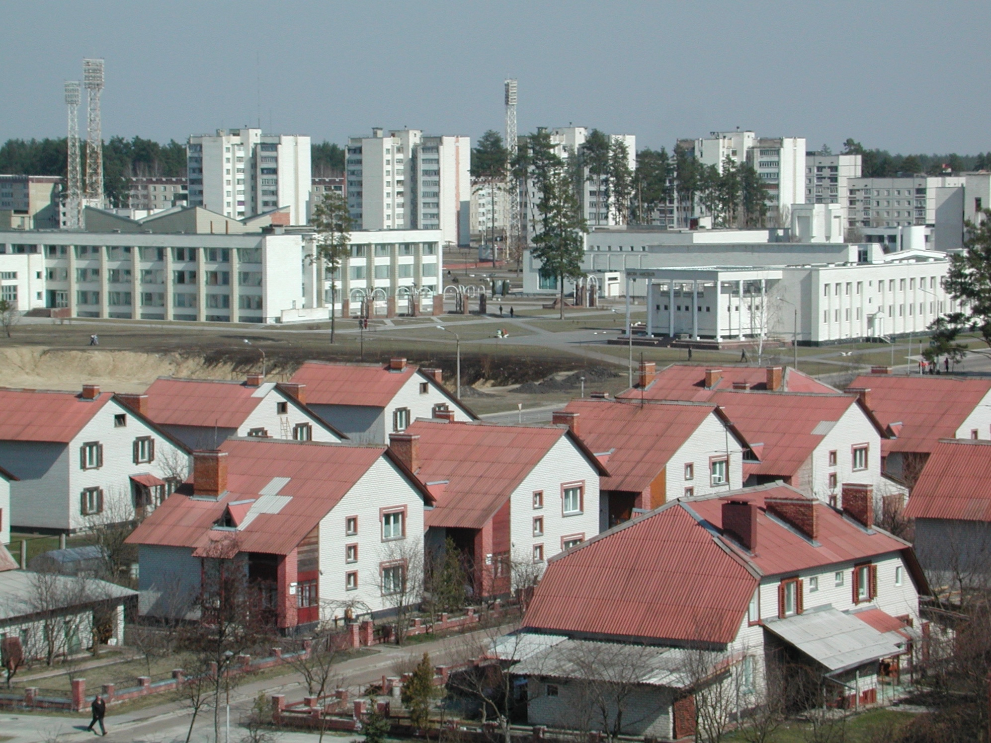 The new and modern city of Slavutich, some 50 kilometres from the Chernobyl Nuclear Power Plant, was built after the power plant accident in a nationwide showcase effort to demonstrate that the accident was being dealt with successfully. (Slavutich, Ukraine, April 2001) Photo Credit: Petr Pavlicek/IAEA